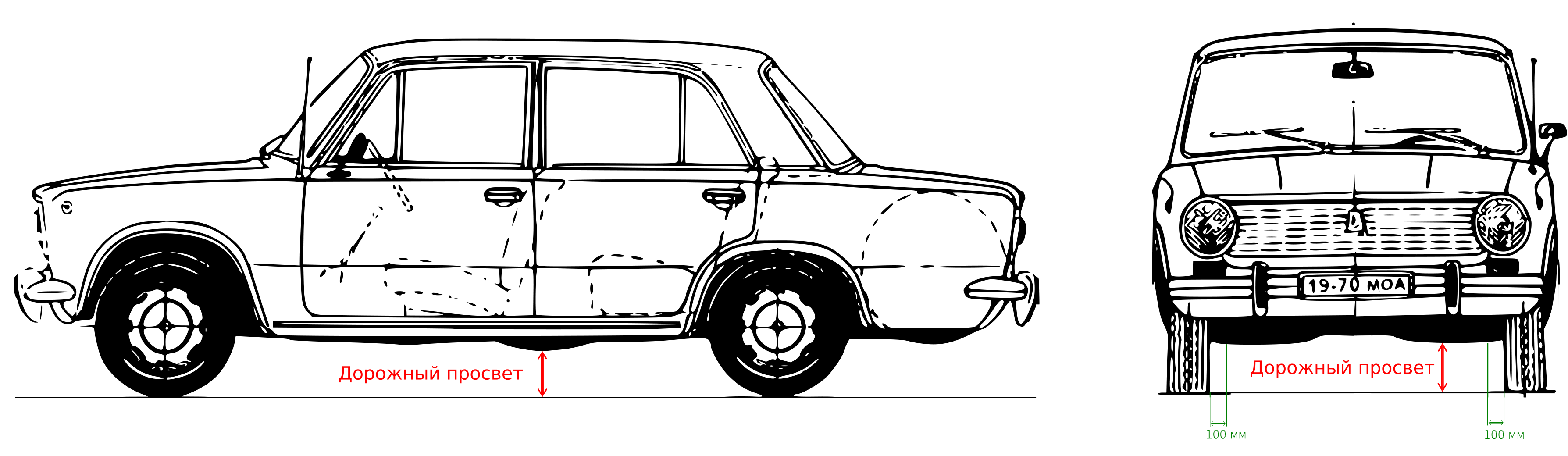 Сlearance